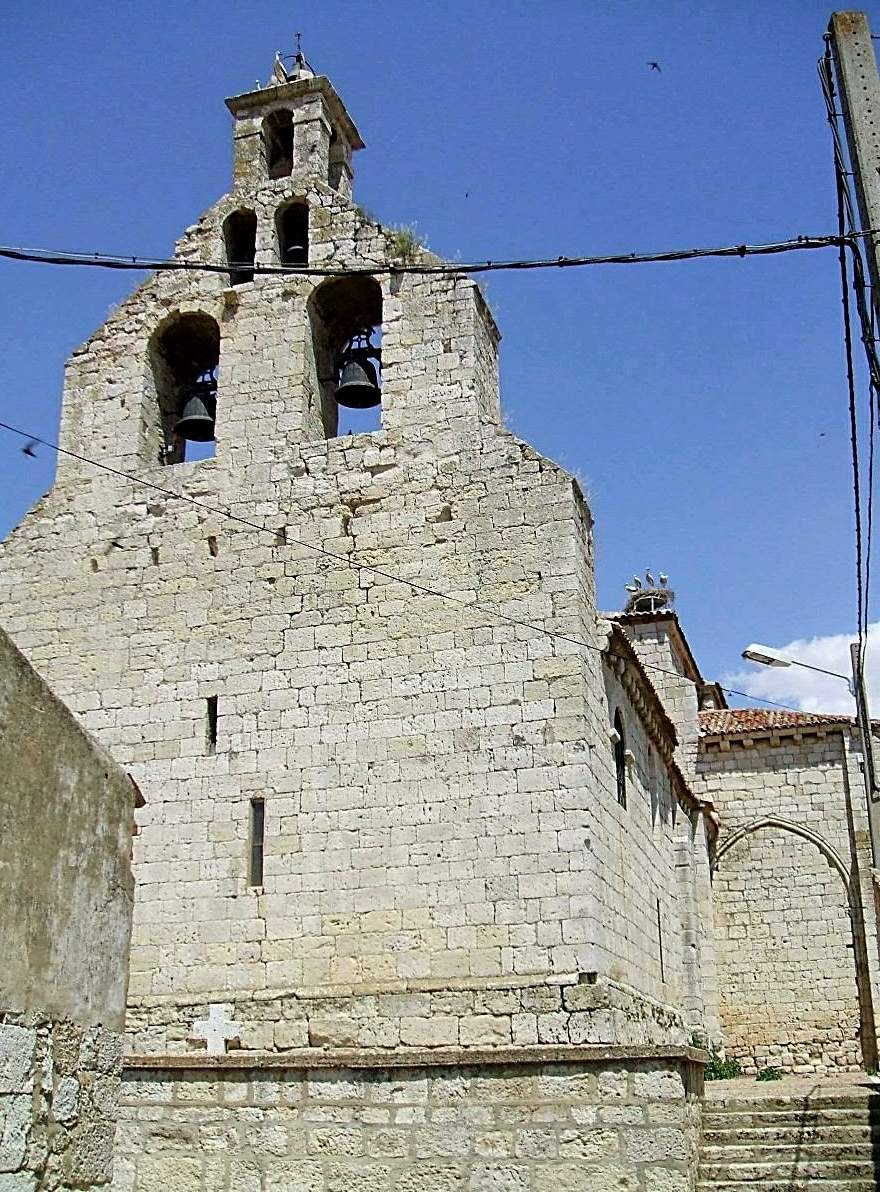 Iglesia de El Salvador, Monzón de Campos (Palencia)